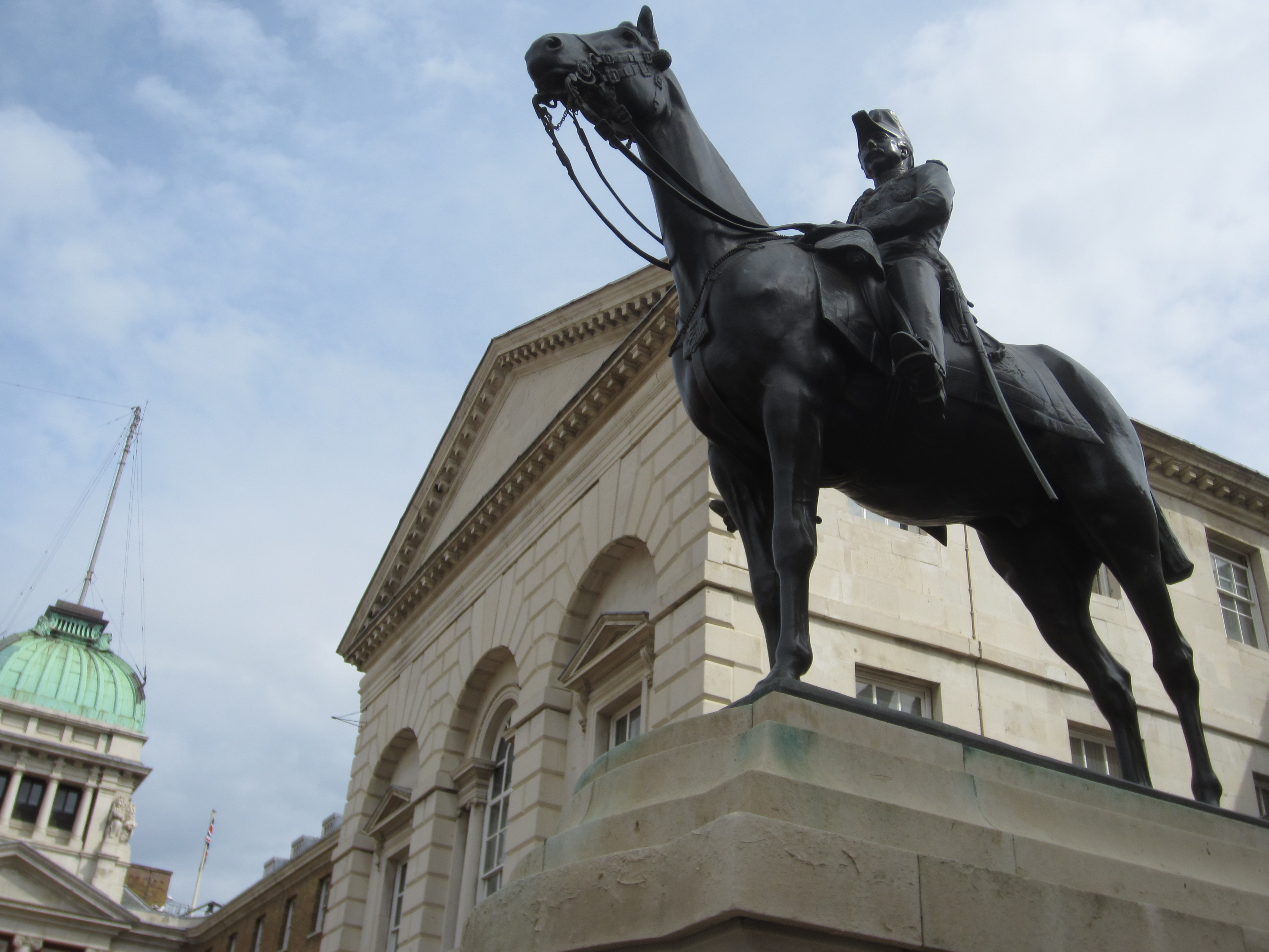 London, United Kingdom (August 2014)